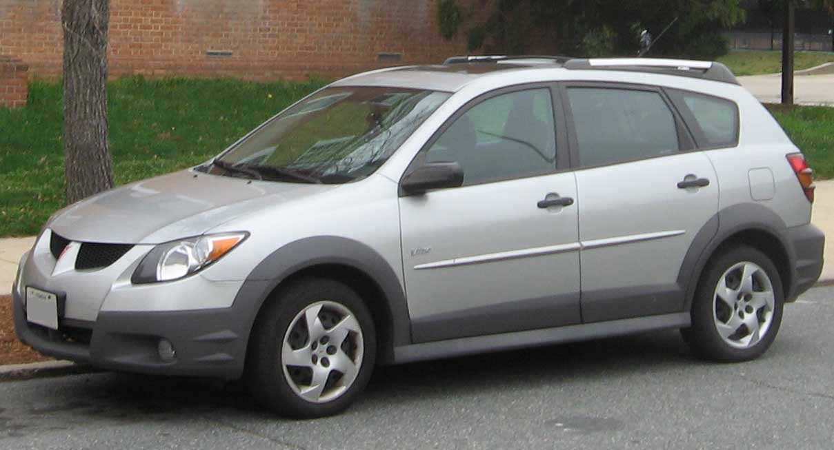 2003-2004 Pontiac Vibe photographed in College Park, Maryland, USA.